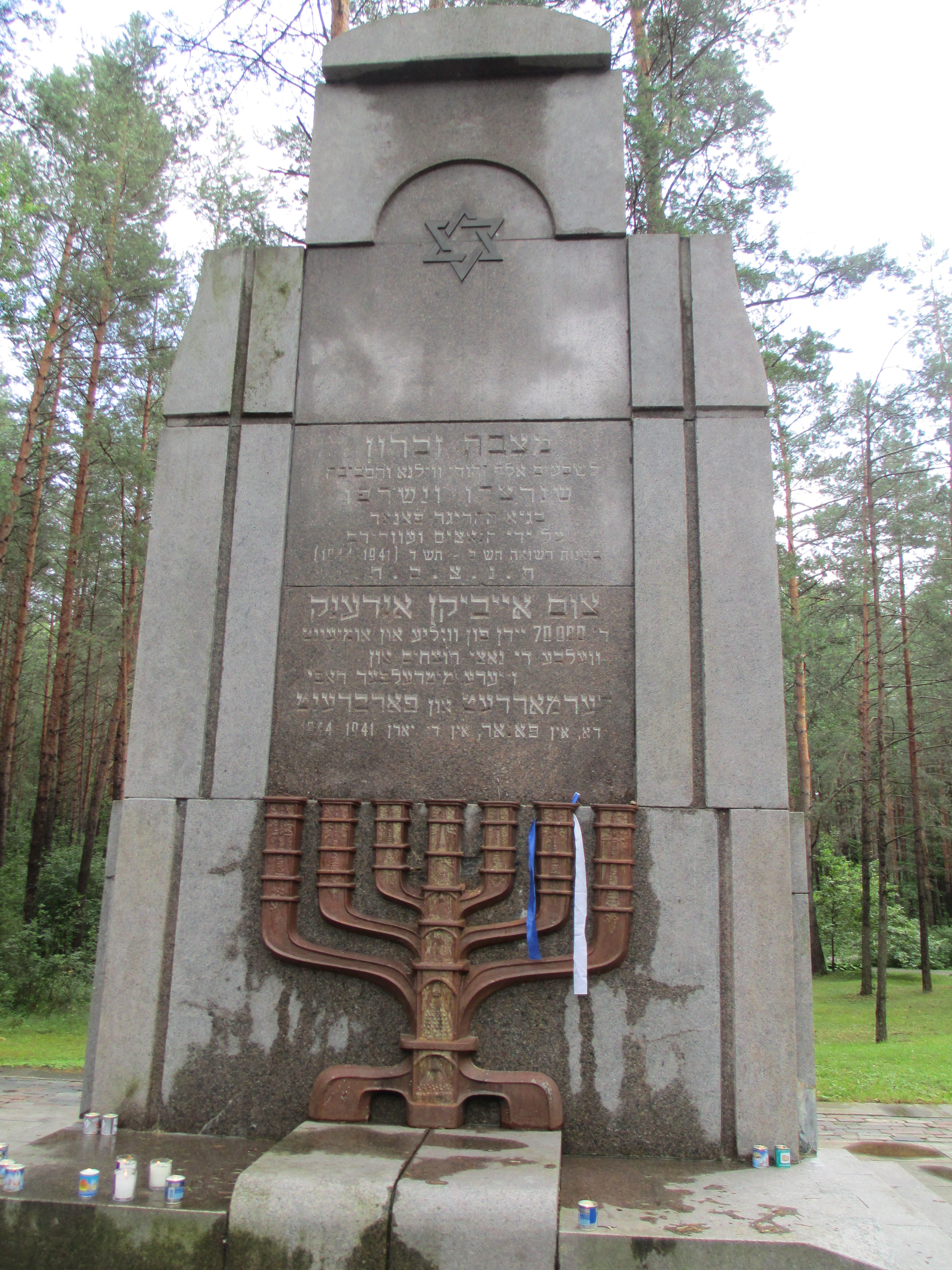 memorial to the jewish victims in ponar